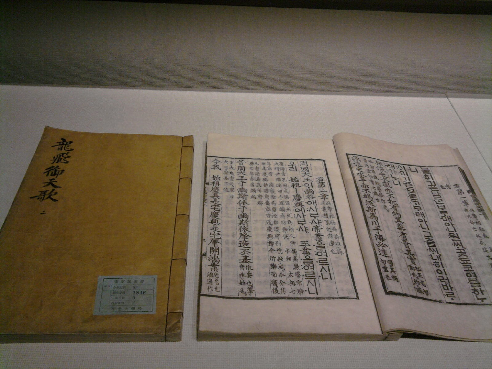 Songs of the Dragons Flying to Heaven displayed in Seoul National University Kyujanggak Institute for Koreanology Studies